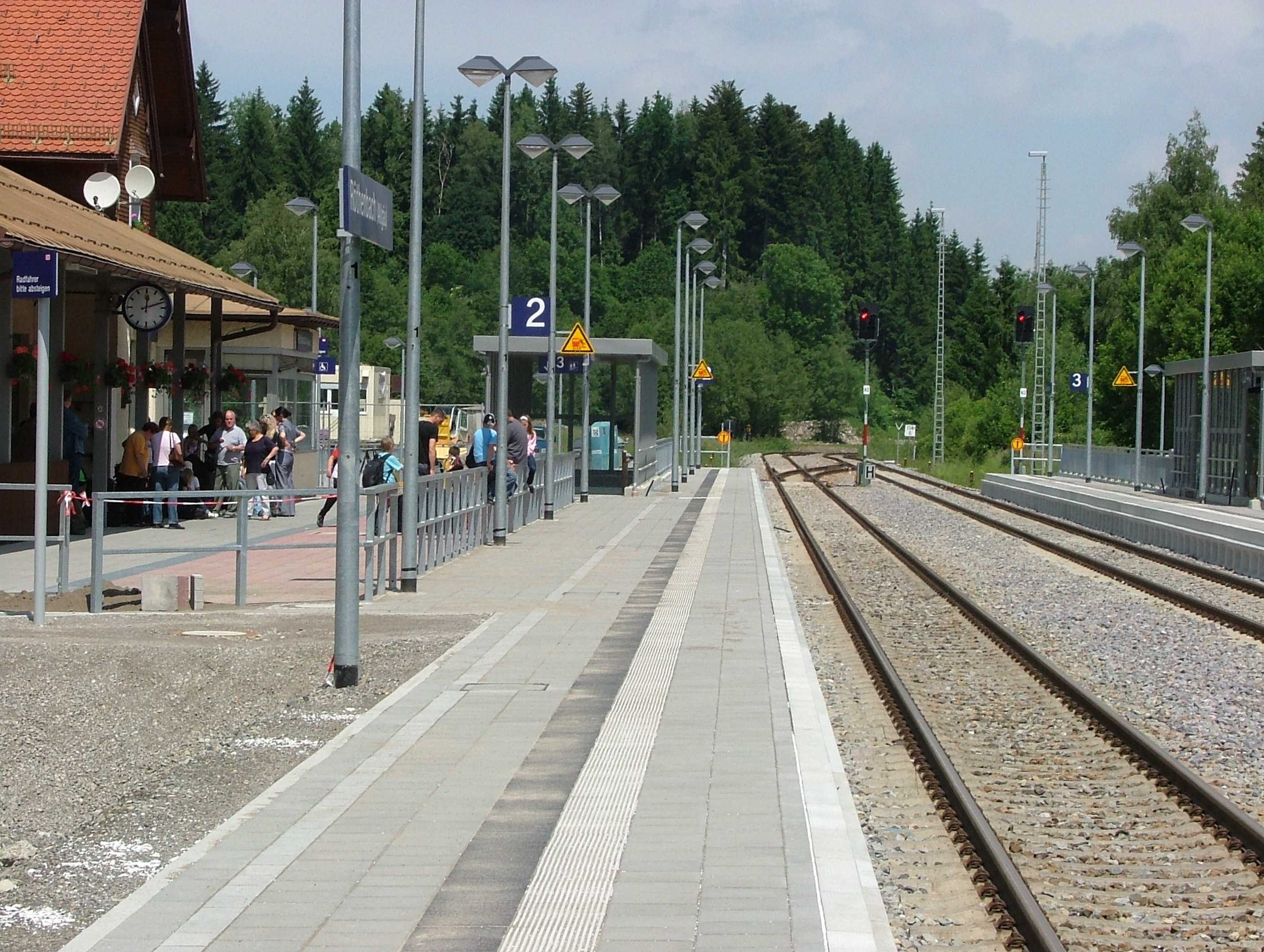 Röthenbach Station